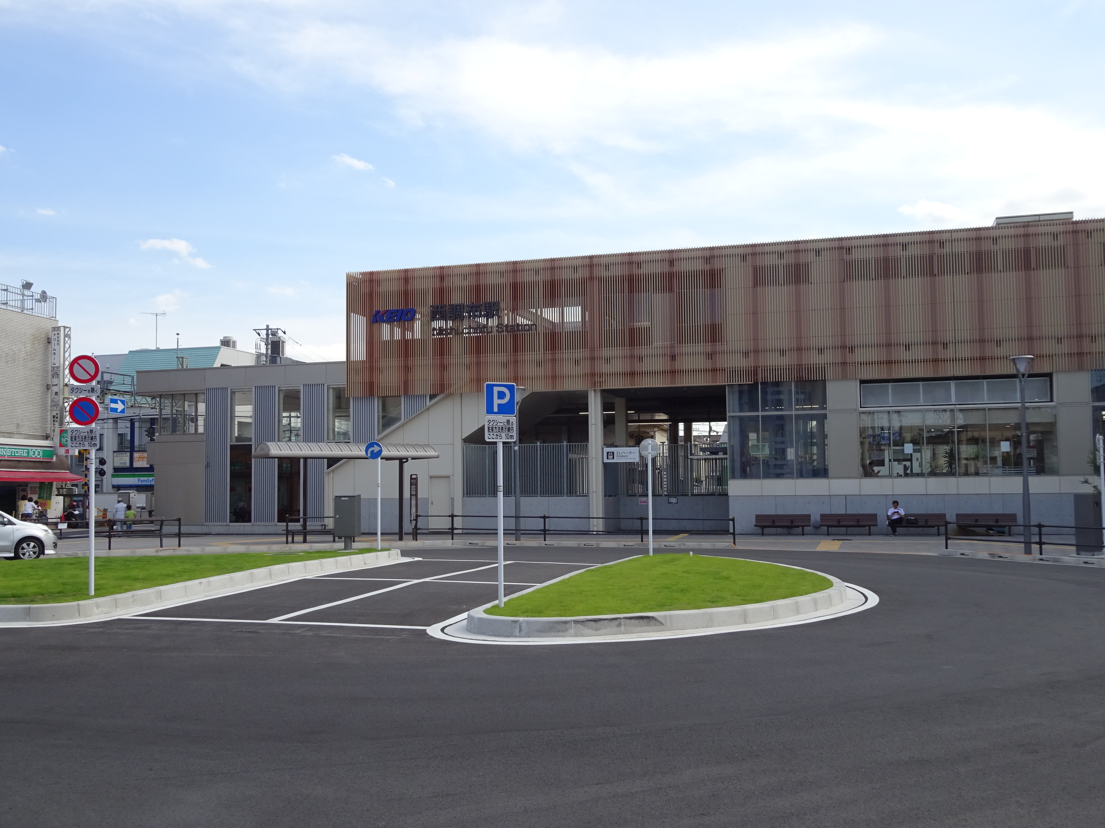 North entrance of Nishi-Chōfu Station